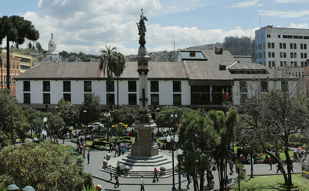 A view of the Independence Square from the Presidential Palace's balcony.